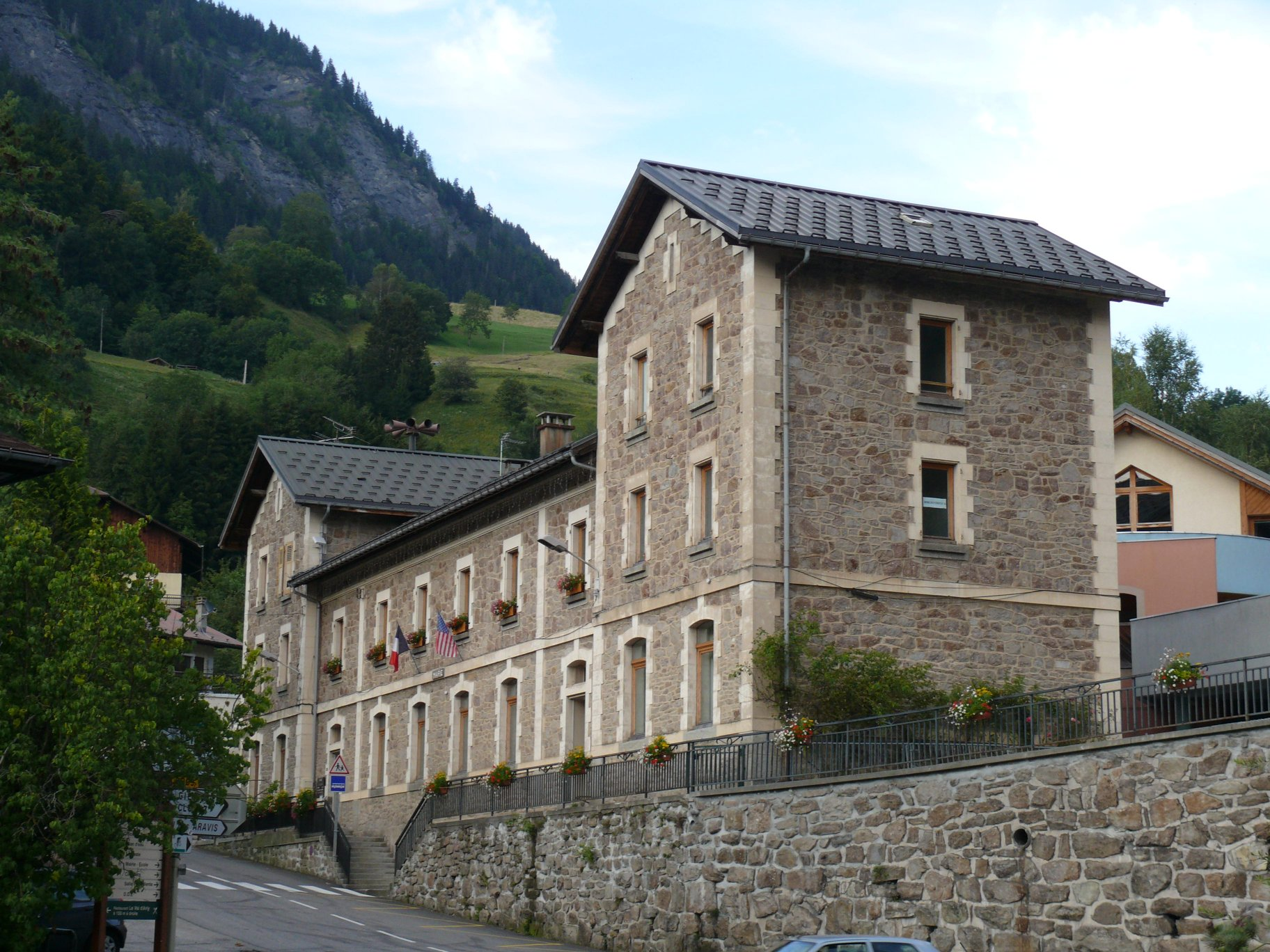 The city hall of Flumet (Savoie, Rhône-Alpes, France).